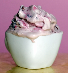 Cherry ice cream, created and photographed by Heidi Swanson, [1] and released by her under a creative commons attribution licence. Contents 1 Licensing 2 Original upload log 3 Licensing 4 Original upload log Licensing Original upload log The original description page was here. All following user names refer to en.wikipedia. 2005-11-10 22:06 SlimVirgin 285×386×8 (40863 bytes) Cherry ice cream